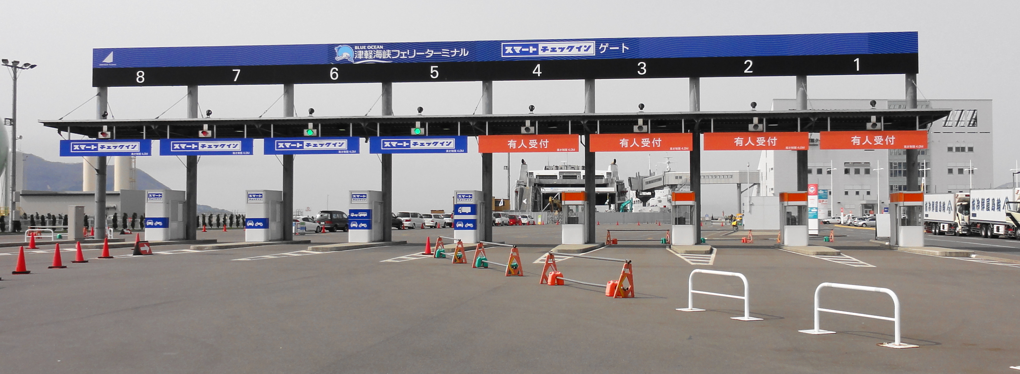 Tsugarukaikyo Ferry smart check in Gate ,Hokkaido prefecture,Japan